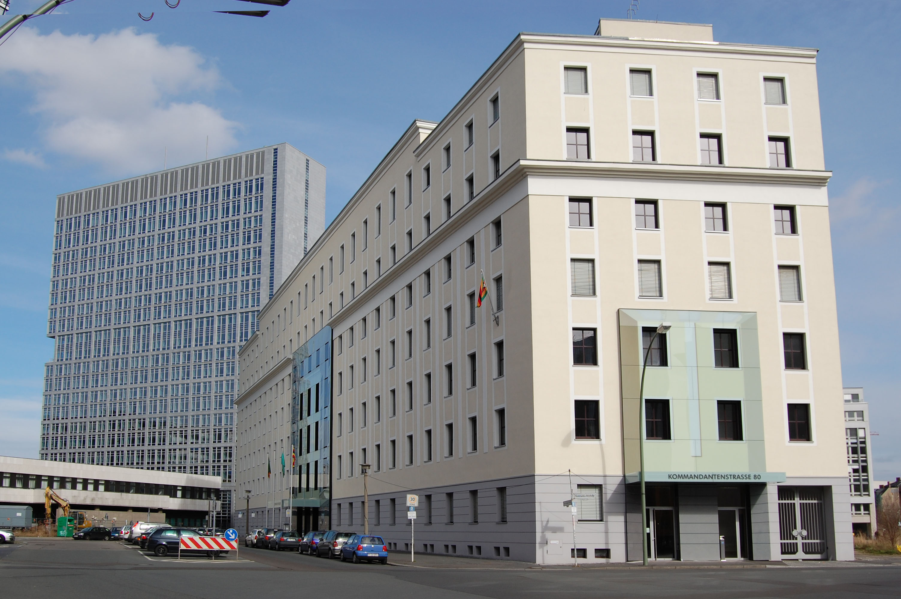 Publishers House Volk und Wissen in Berlin with Embassies of Zambia, Mauretania, Zimbabwe and Azerbaijan in Berlin